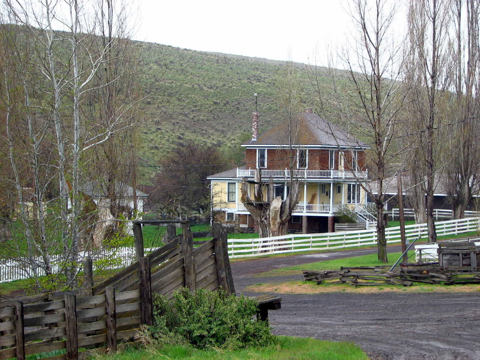 The historic Imperial Stock Ranch Headquarters Complex (built ca. 1900), located on Hinton Road near Shaniko, Oregon, United States, is listed on the US National Register of Historic Places.